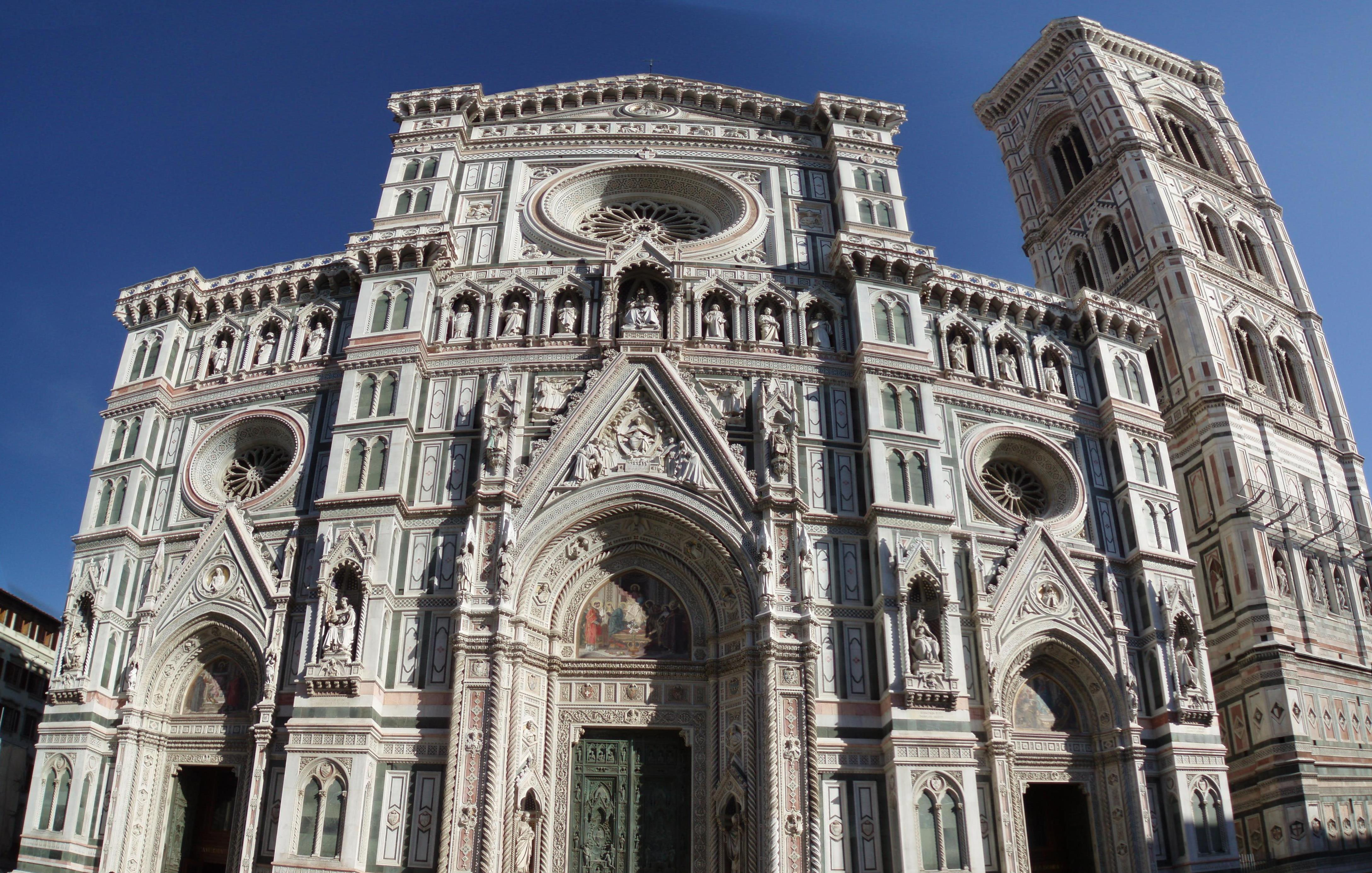 The facade of Florence's Duomo. This panoramic image was created with Autostitch. Stitched images may differ from reality. .